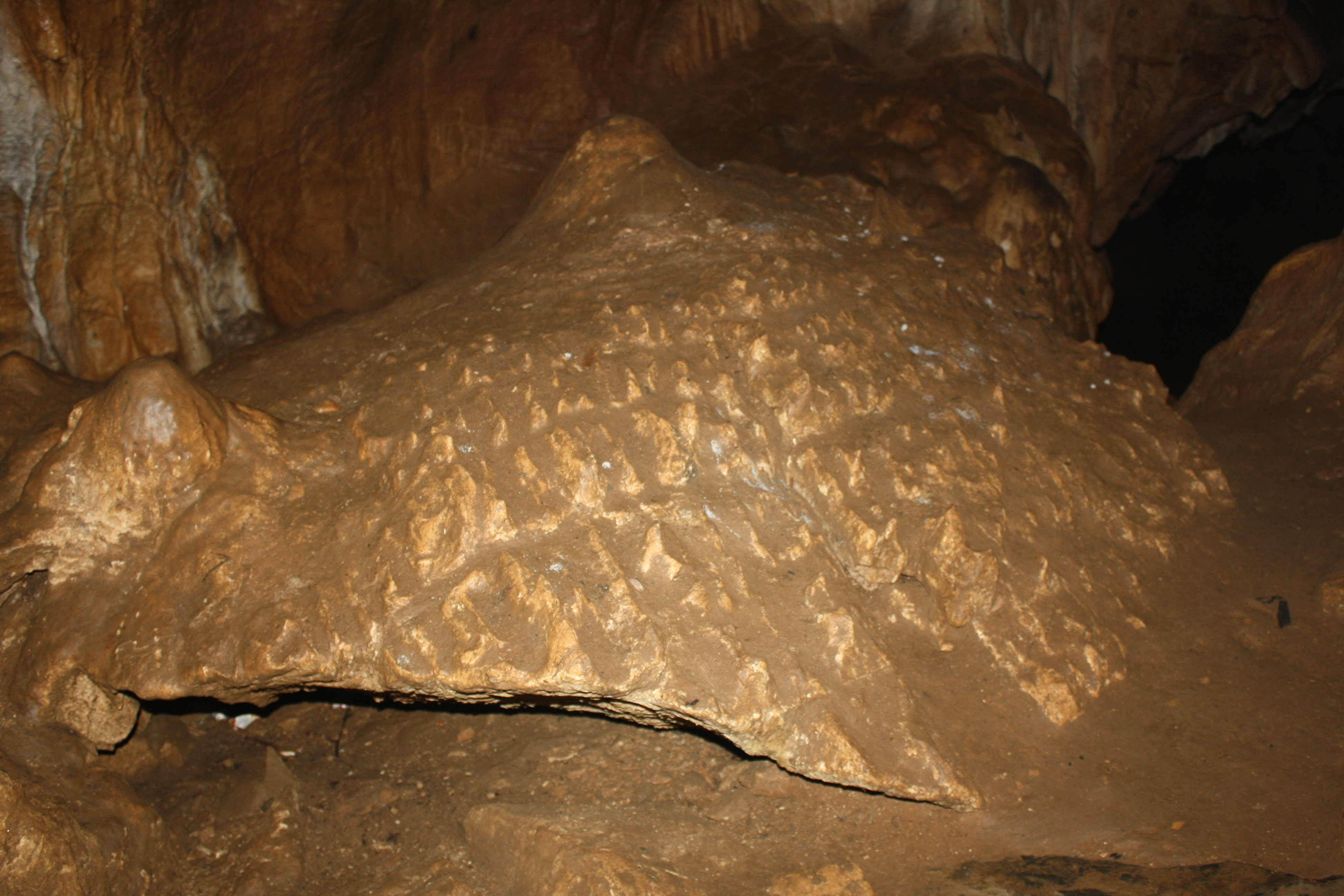 Bandipur